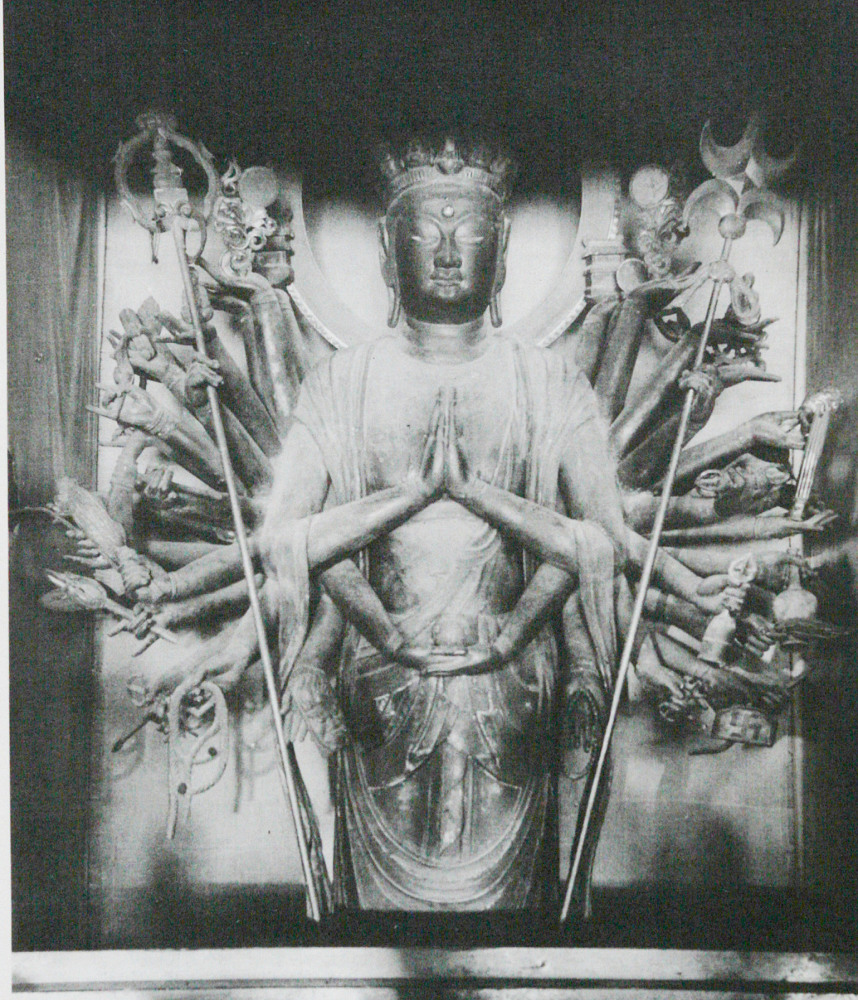 Thousand-armed Kannon (sahasrabhuja aaryaavalokitezvara), wood , gold leaf over lacquer, height 294.2 cm. Heian Period, later 9th century, Hōbutsuden , Dōjō-ji , Hidakagawa, Wakayama, Japan